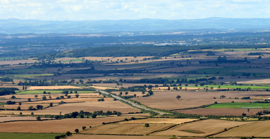 A view of the A5 road from The Wrekin, Shropshire. Photo taken by Chris Bayley.